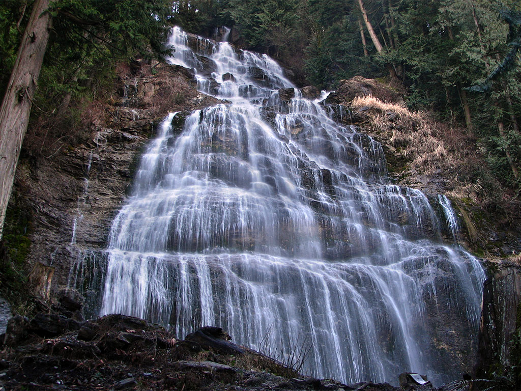 Bridal Falls, Stephen Edwards